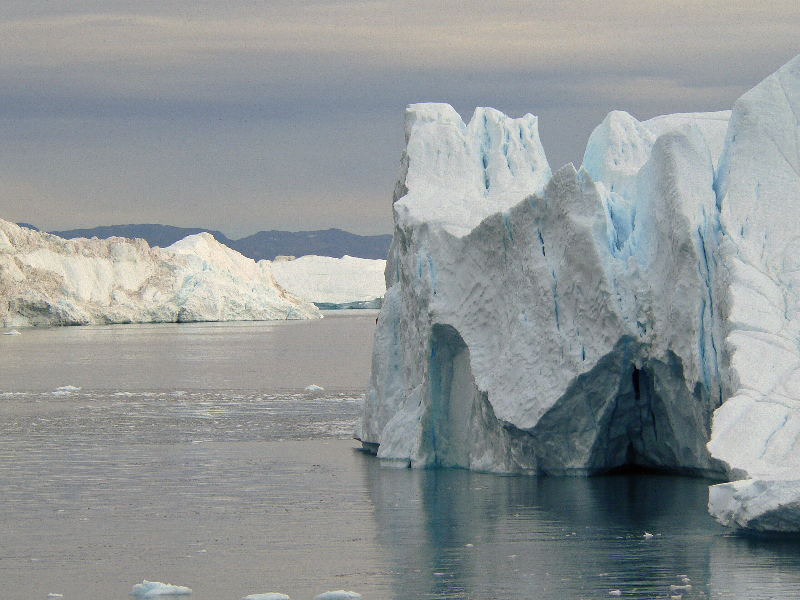 Ilulissat Icefjord 2